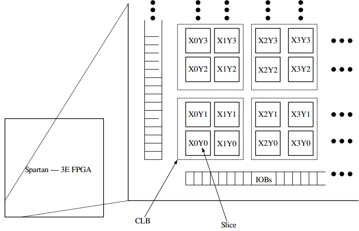 Configurable Logic Blocks (CLBs)